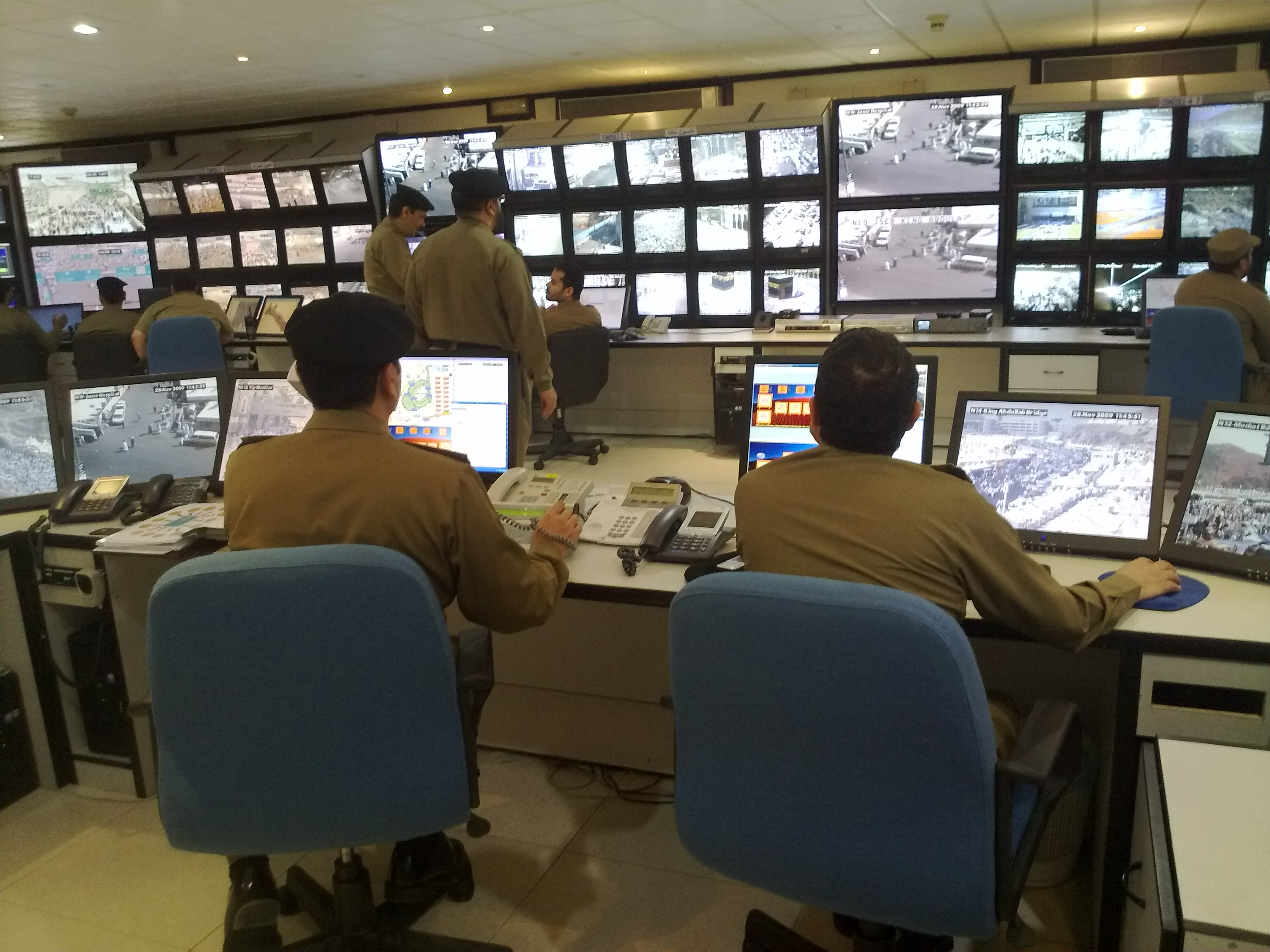 2.5 million Hajj pilgrims visited jamarat yesterday, according to Saudi public security monitorsPhoto by Omar Chatriwala